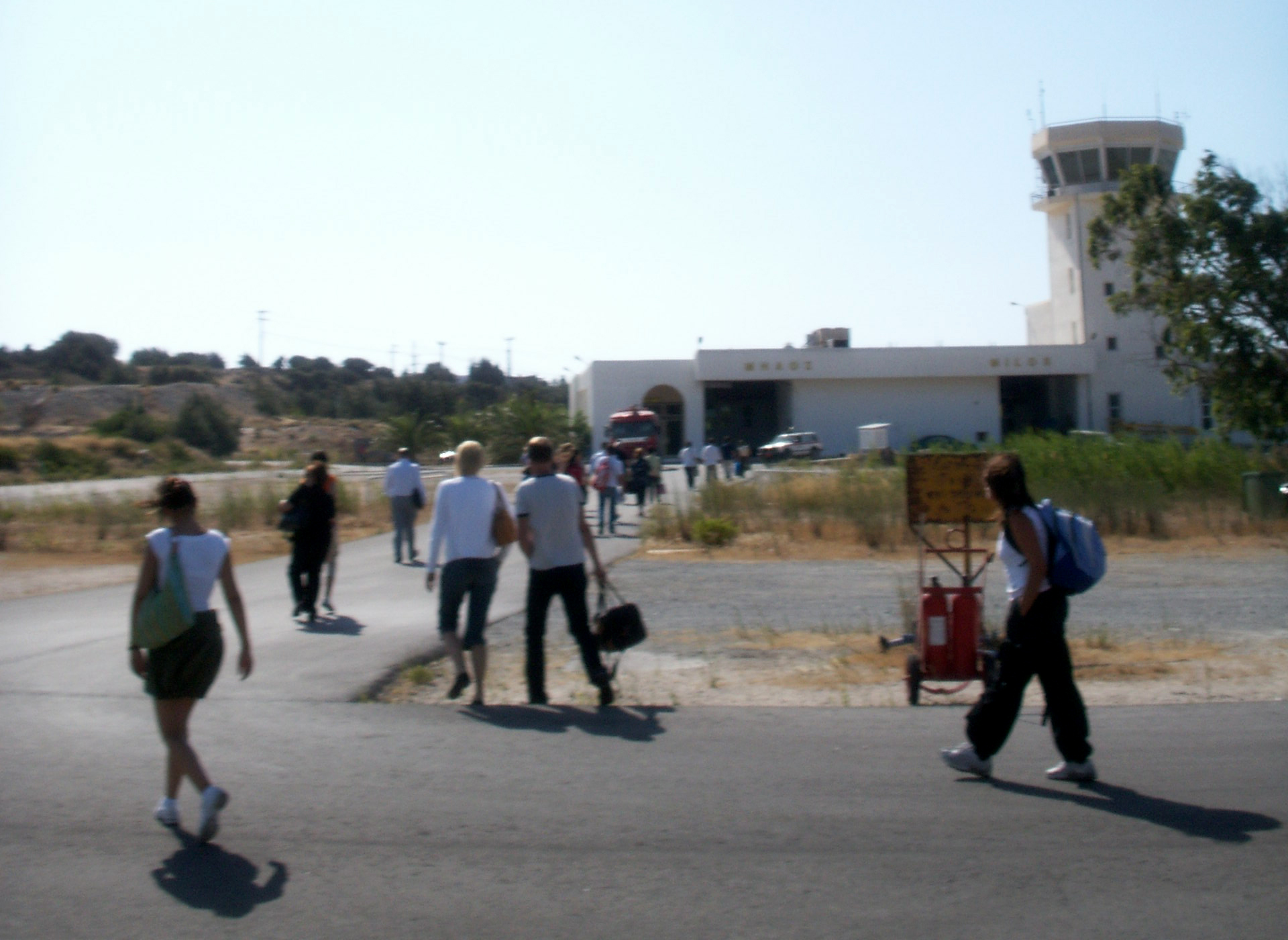 View of Milos airport terminal, in Milos island, Greece.